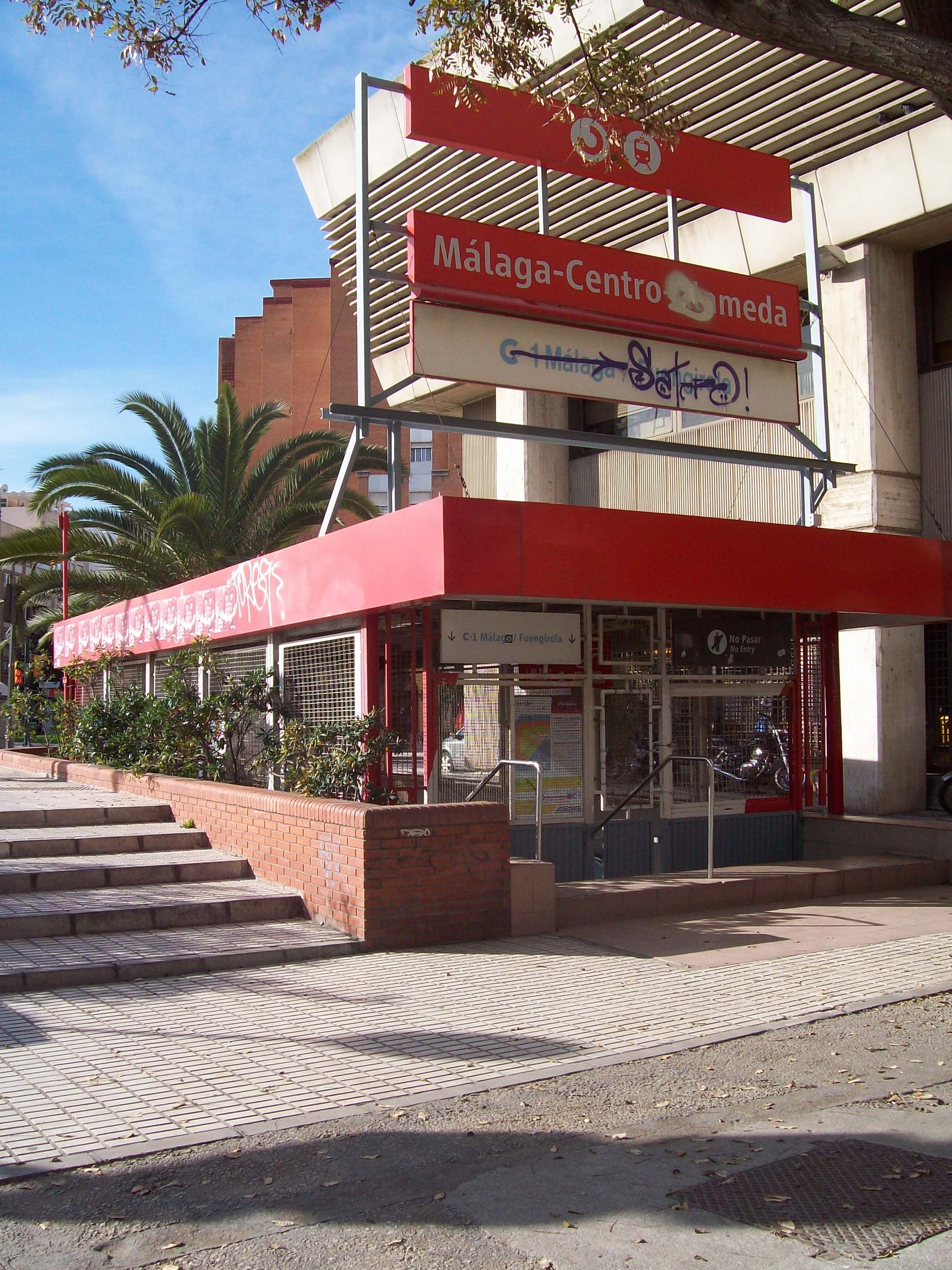 Former entrance to Málaga-Centro-Alameda station from Correos building